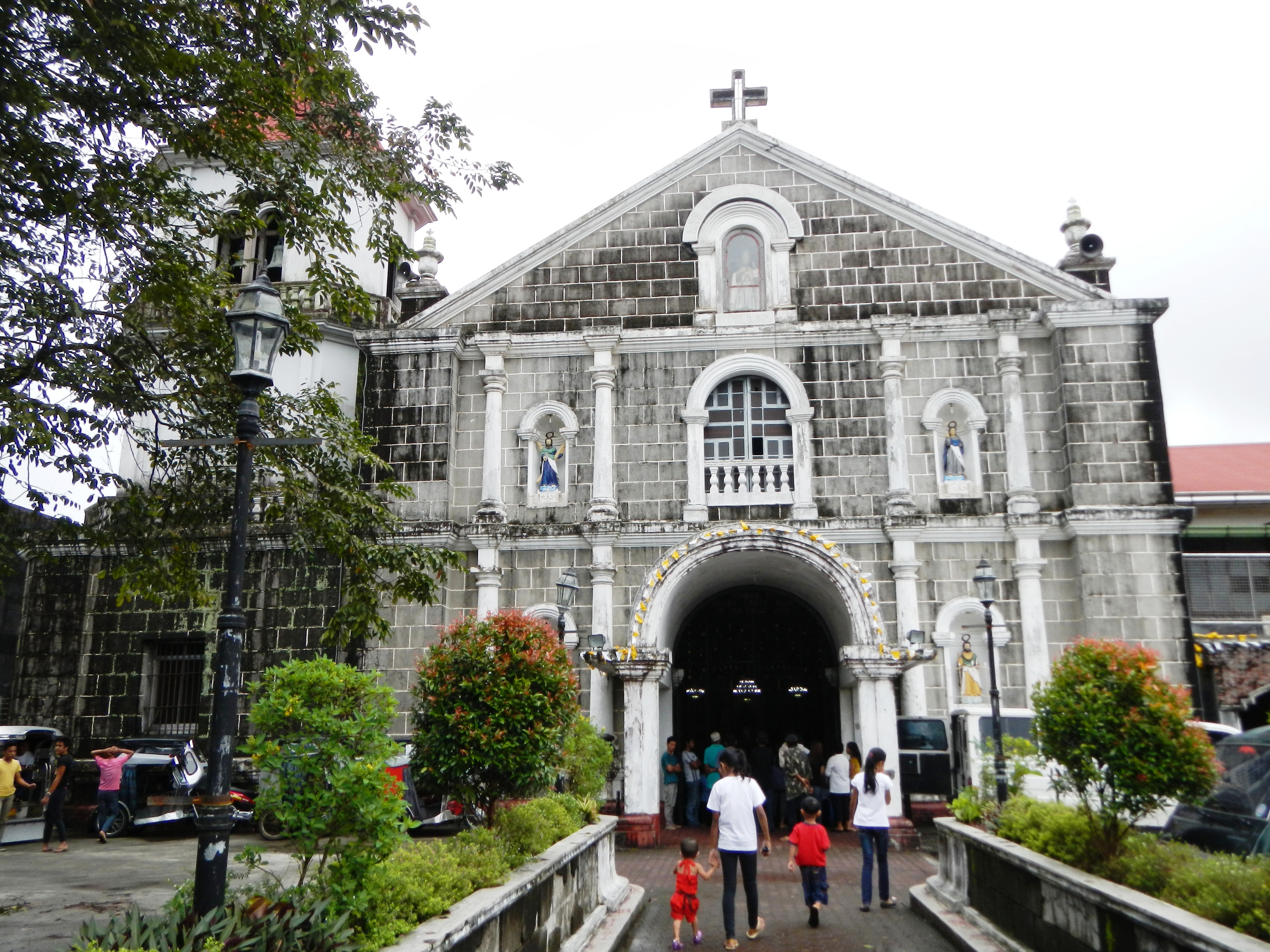 UploadWizard photos -- (General description, 3-dimension angle by angle photography of this town, church & landmarks) -- Indang, Cavite[1] [2] Coordinates: 14°12'10"N 120°50'25"E [3] Geographical location: Cavite, Region 4, Philippines, Asia Geographical coordinates: 14° 11' 43" North, 120° 52' 37" East [4] --- Saint Gregory the Great Parish Church of Indang [5] belongs to the Roman Catholic Diocese of Imus [6] (Jubilee Church)– Indang (Town Proper) Vicariate of The Seven Archangels (Tagaytay City/Mendez/Indang/Alfonso/General Aguinaldo) Vicar Forane: Rev Fr. Luisito C. Gatdula Episcopal District 2 Episcopal Vicar: Rev. Fr. Agustin Baas Vicarial Representative: Rev. Fr. Hermenegildo M. Asilo.[7] [8]. [9] Pope Gregory I.